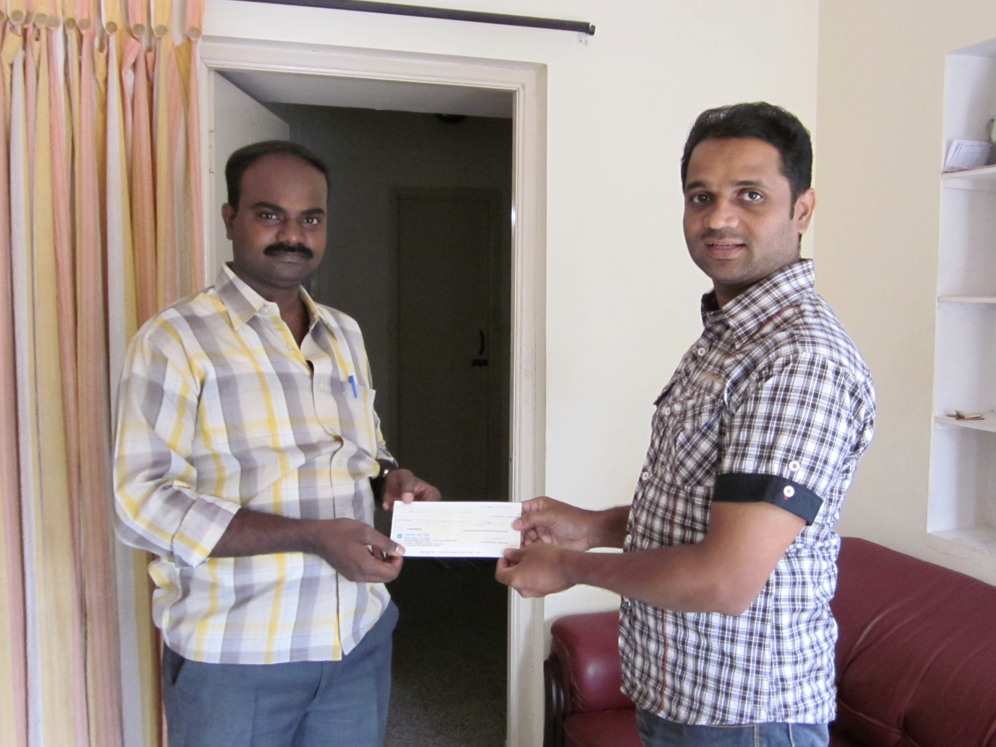 Singing Skylarks Volunteer making donations for Education Sponsor in K R Puram, Bangalore